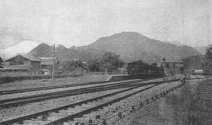 Otsuki Station in Taisho era